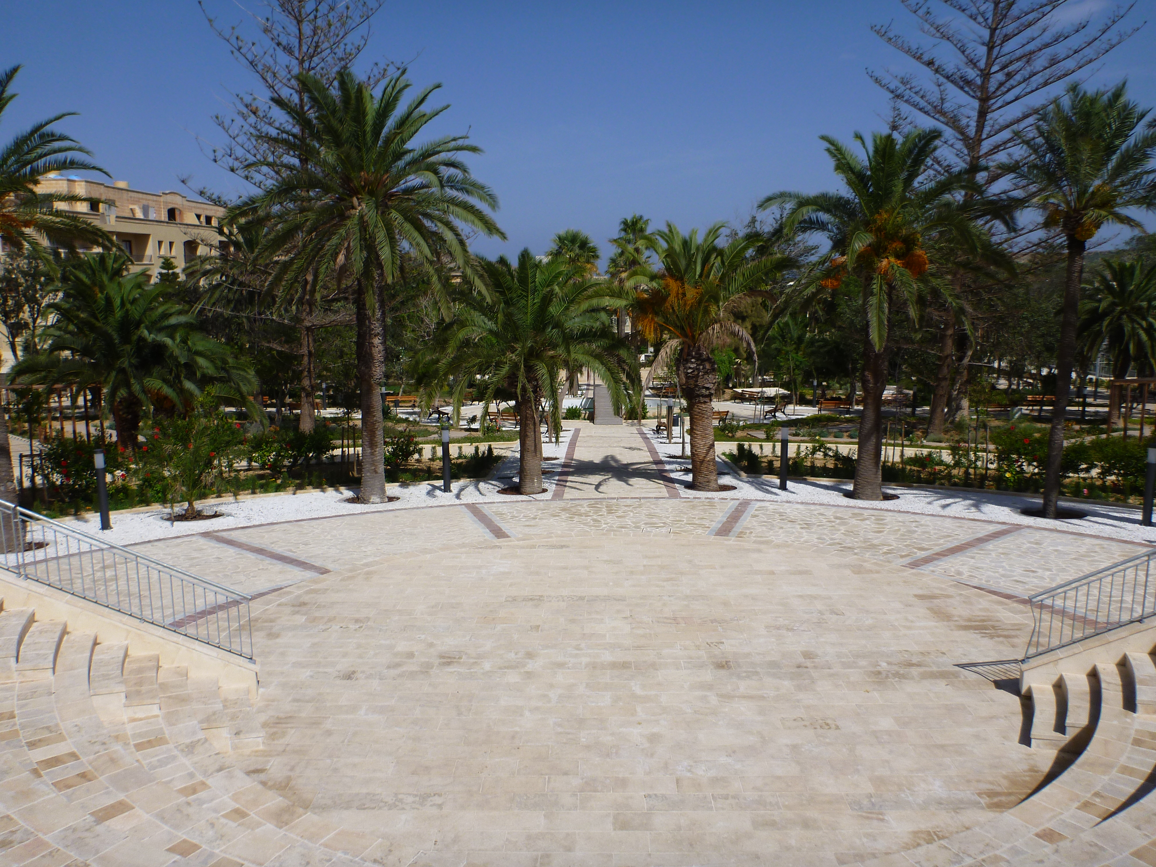 Villa Rundle Garden, a city park in Viktora designed from Sir Henry Macleod Leslie Rundle in 1914